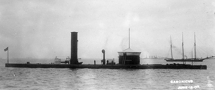 Source: [1] Commons:Category:Ships Commons:Category:Black and white photographs Commons:Category:1907